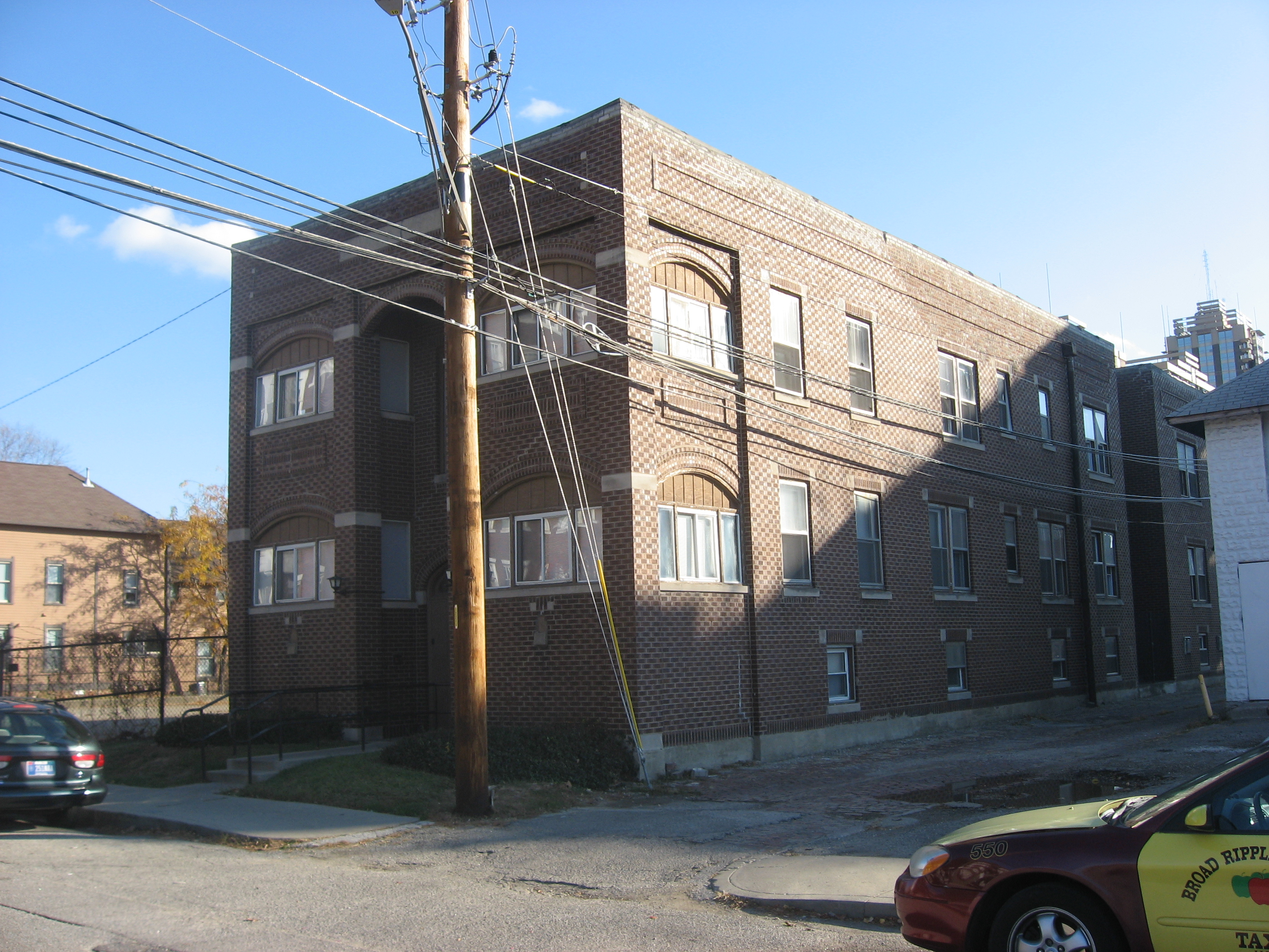 Front and western side of The Myrtle Fern, located at 221 E. Ninth Street in Indianapolis, Indiana, United States. Built in 1925, it is listed on the National Register of Historic Places.